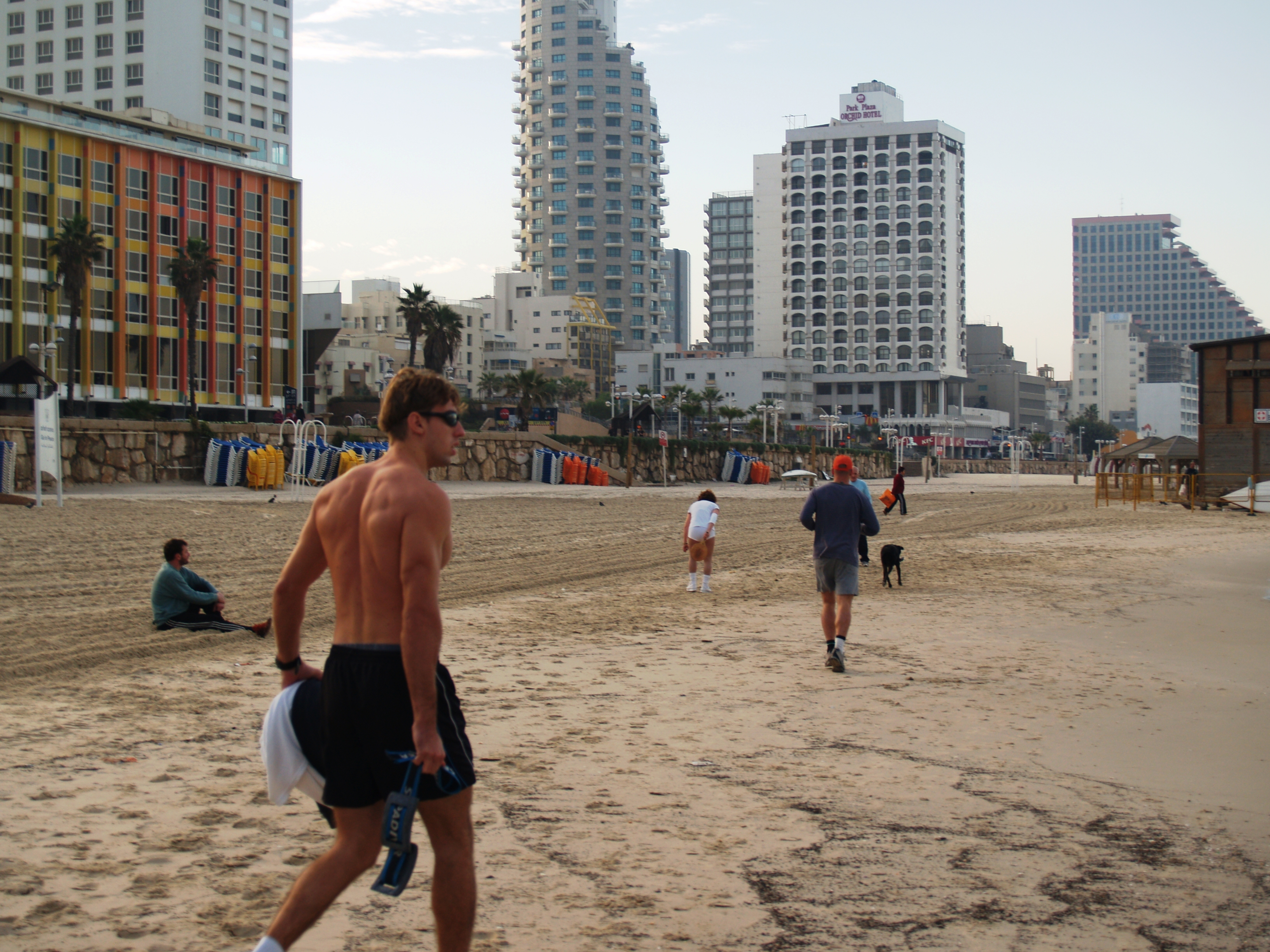 The beach in Tel Aviv early morning